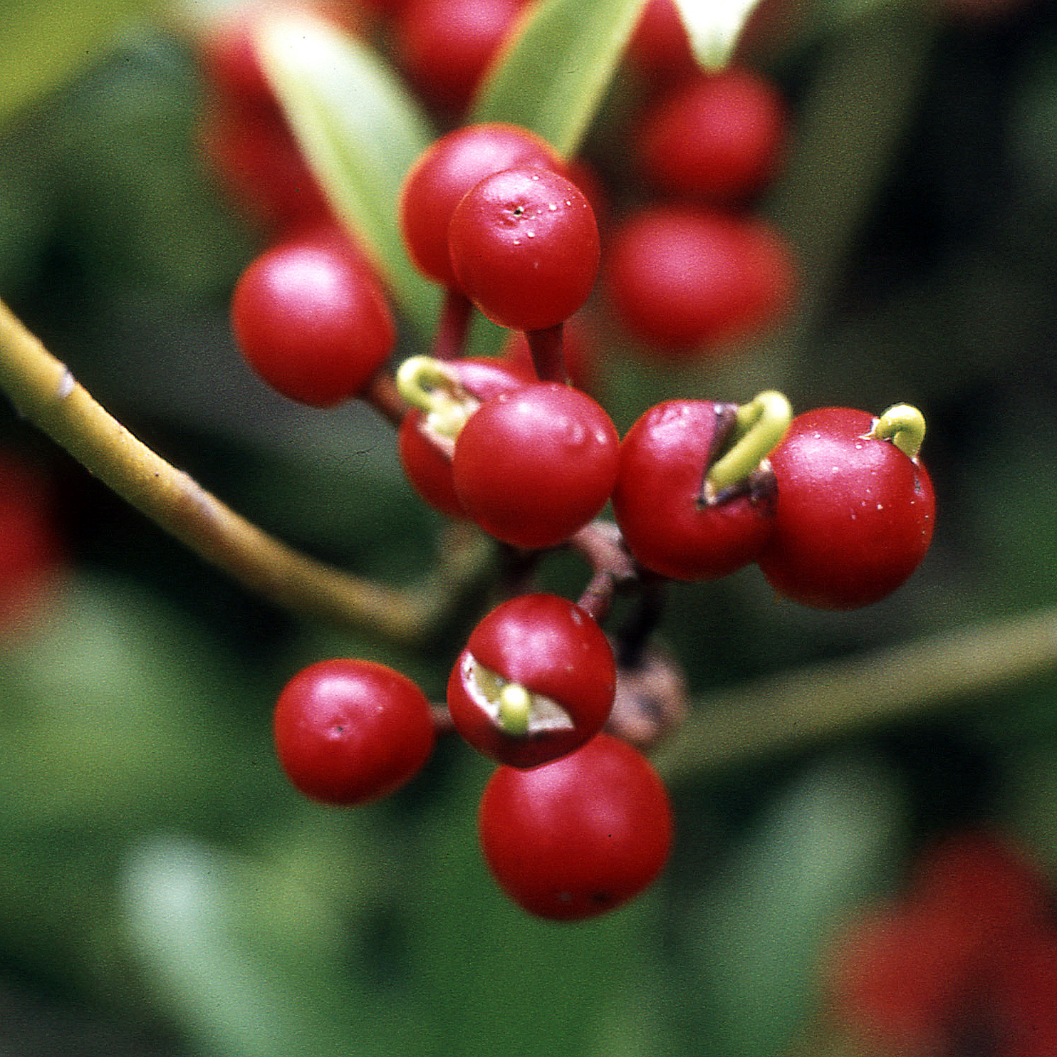 Vivipary in Skimmia japonica